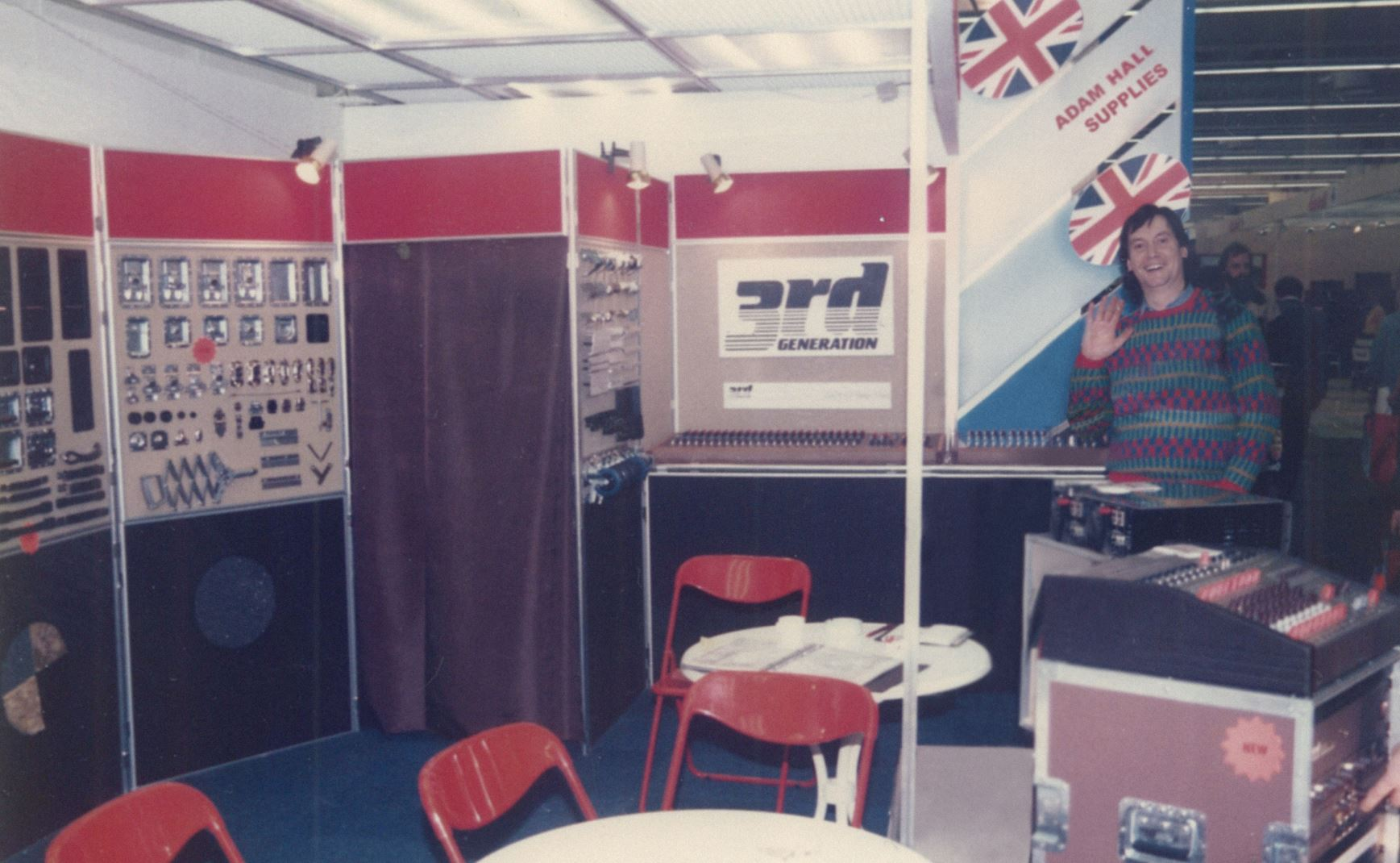 Mr. Adam Hall 1975